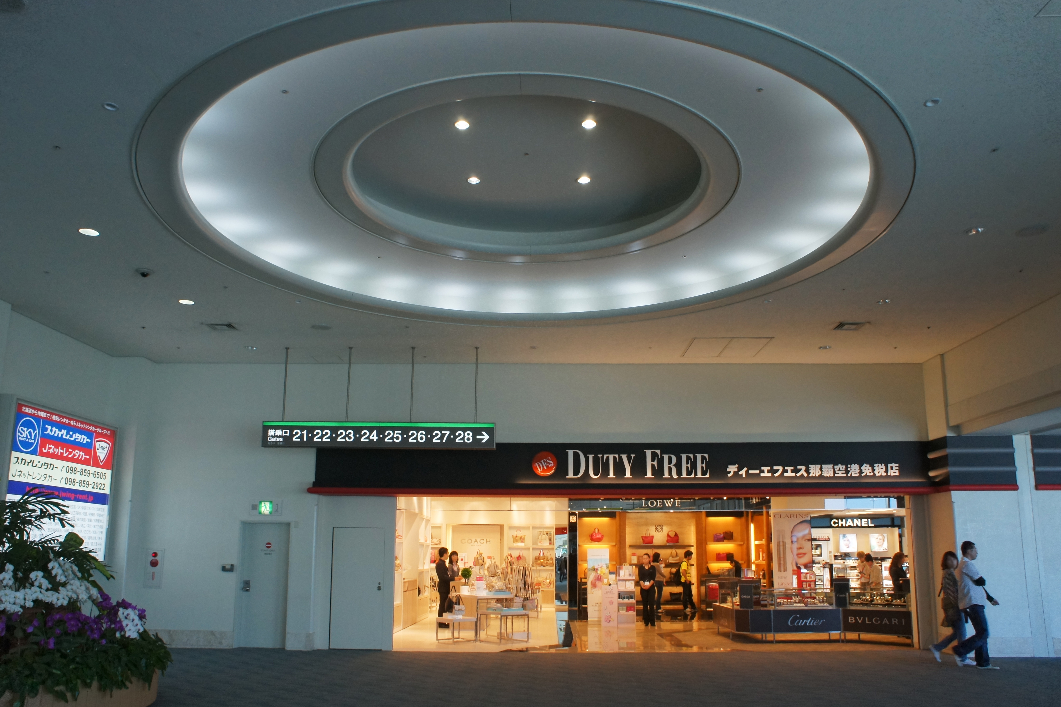 Naha Airport, Naha, Okinawa prefecture, Japan